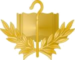 Over the lower corners of an open book, two laurel branches crossed at the stems overall a shepherd’s crook, all gold. The insignia is 1 inch (2.54 cm) in height and 1 1/4 inches (3.18 cm) in width. The book represents regulations, while the laurel sprays symbolize the honors received in the administration of military regulations. The shepherd’s crook represents the spiritual nature of the regulations.